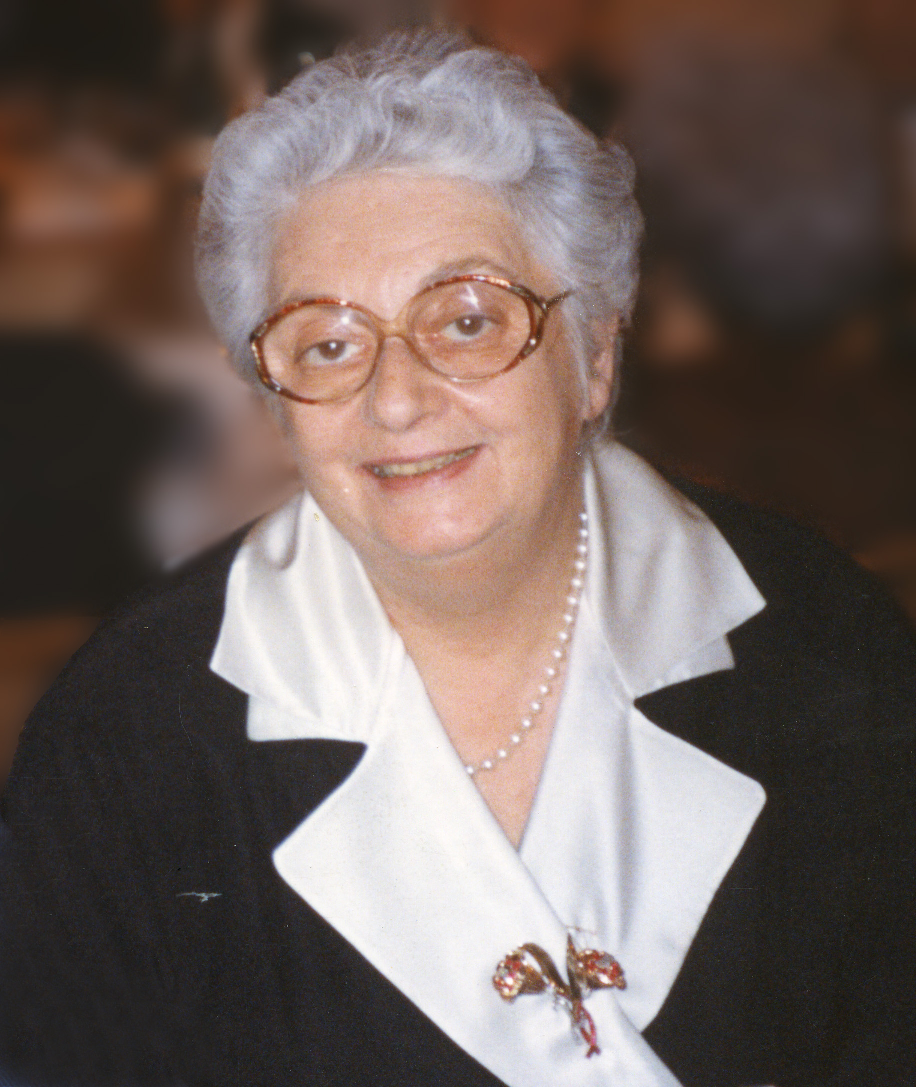 Luisella Mortara Ottolenghi